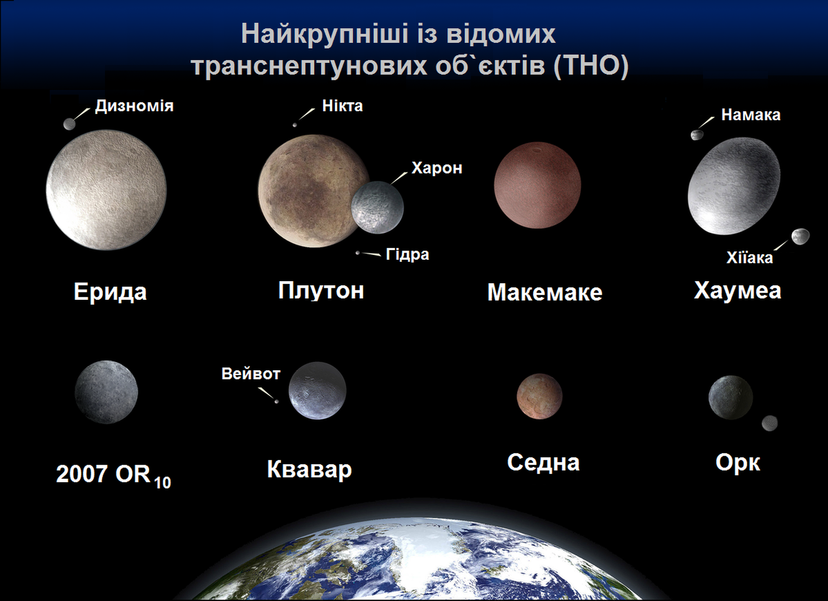 Comparison of the eight largest TNOs Text properties for future modification: Font is Verdana Size is 100 pt for title, 72 pt for objects, 48 pt for moons Colour is FFFFCE *Style is Bold *Anti-aliasing (in Photoshop) is Sharp